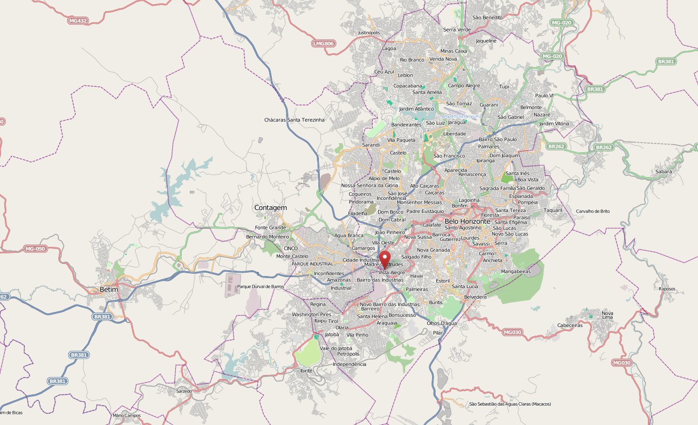 This map may be incomplete, and may contain errors. Don't rely solely on it for navigation.